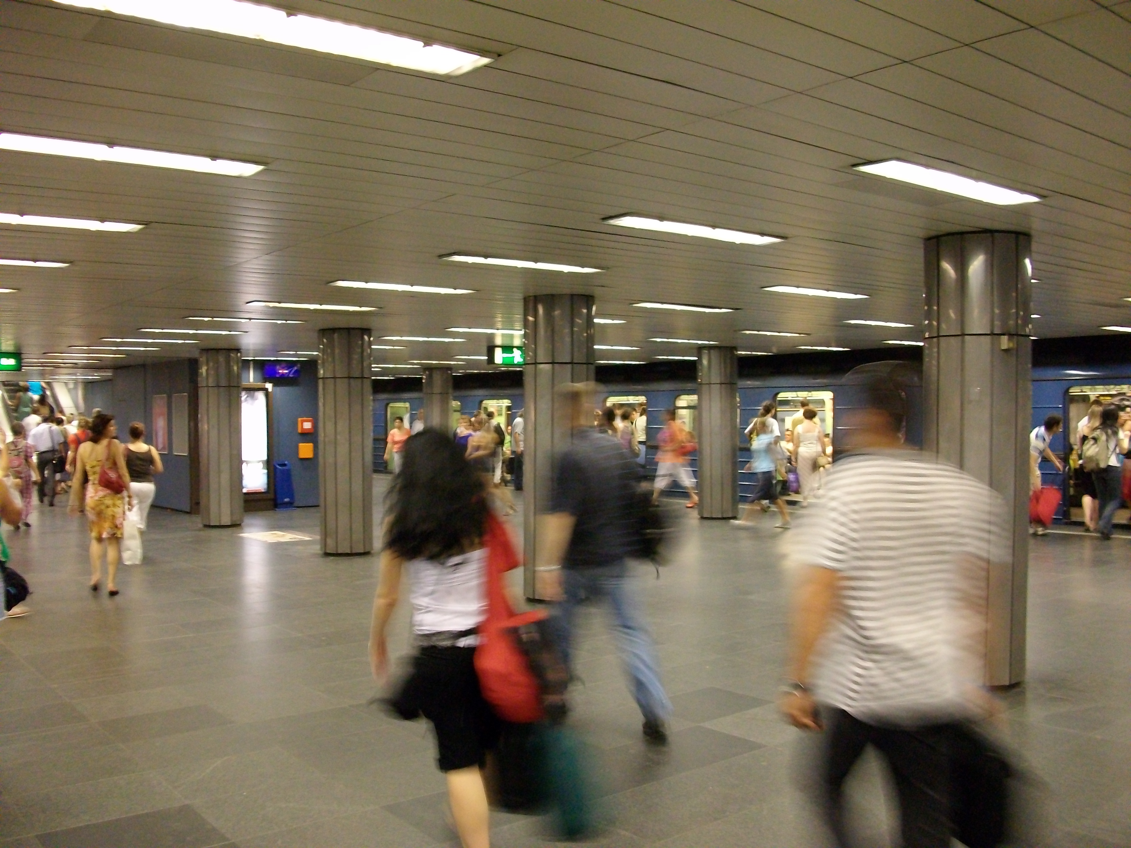 Ferenc körút metro station, Budapest, Hungary